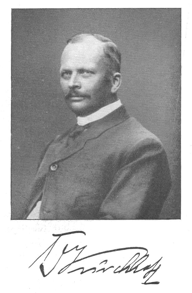 Theodor Kirchhoff (1853-1922)